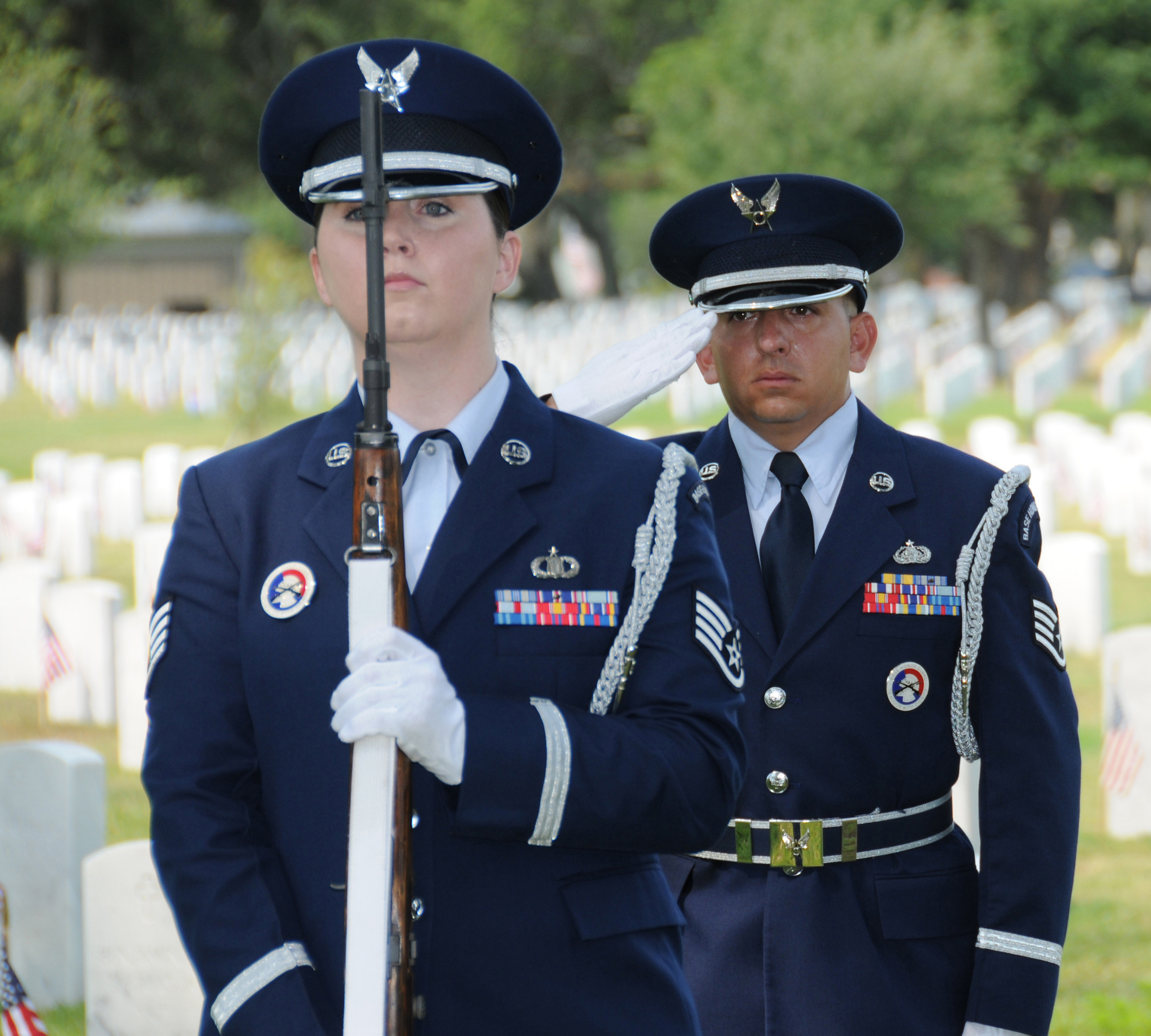 Staff Sgts. Rachel McDaniel, left, 334th Training Squadron, and Joe Rodriguez, 338th Training Squadron, members of the Keesler Honor Guard, Keesler Air Force Base, Biloxi, Miss., stand at attention while Taps is played during Memorial Day ceremony May 30, 2011, at Biloxi National Cemetery. Brig. Gen. Andrew Mueller, 81st Training Wing commander, was the guest speaker. Col. Glen Downing, 81st TRW vice commander, spoke at the holiday observance at Hattiesburg Memorial Park and Airman Leadership School staff and members of Class 11-4 conducted a POW/MIA table ceremony at the Armed Forces Retirement Home in Gulfport. (U.S. Air Force photo by Kemberly Groue)